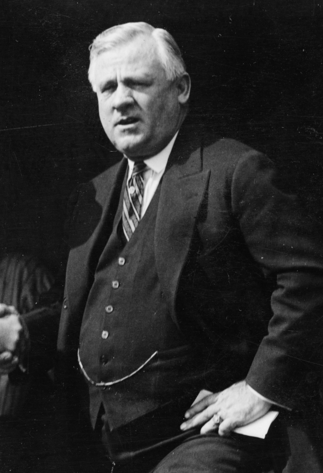 This file has been extracted from another file: Bucky Harris and John McGraw.jpg